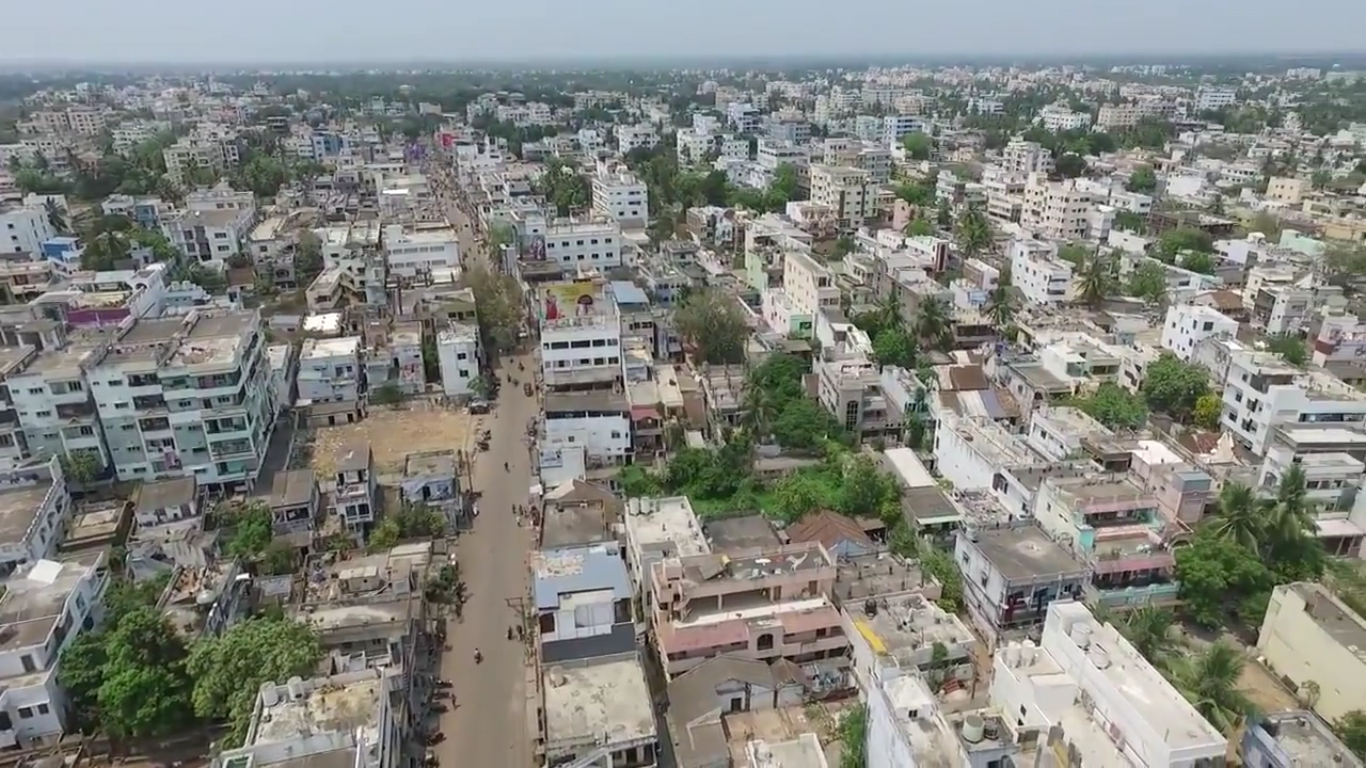 Aerial View of Eluru